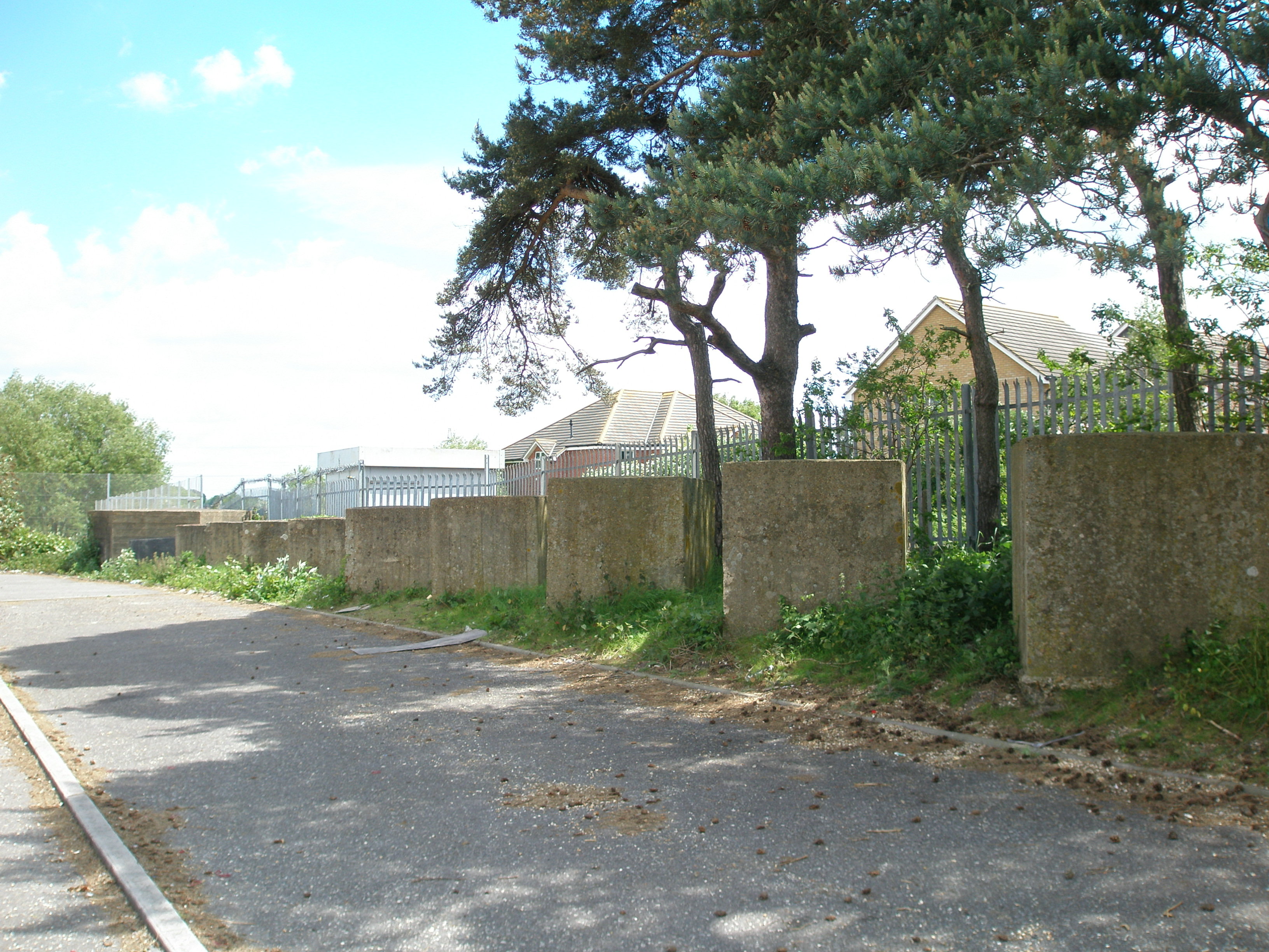 Part of the WWII anti tank defences in and around Christchurch Dorset.